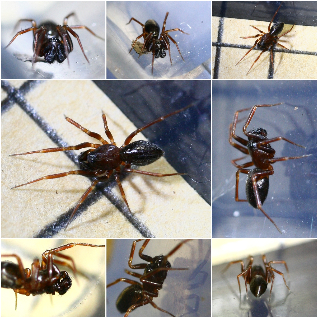 Microneta viaria (Linyphiidae). Male found walking amongst leaf litter in wood. Approx 2.5mm long. Palps large, with group of conspicuous long, slightly curved hairs on patella (as bottom left and bottom middle photos). Tibiae with 2 dorsal spines on all legs. Trichobothria on metatarsus present on 4th leg and positioned c.66% along length on 1st leg. Bricket Wood Common, Hertfordshire, England, 26th March 2011.